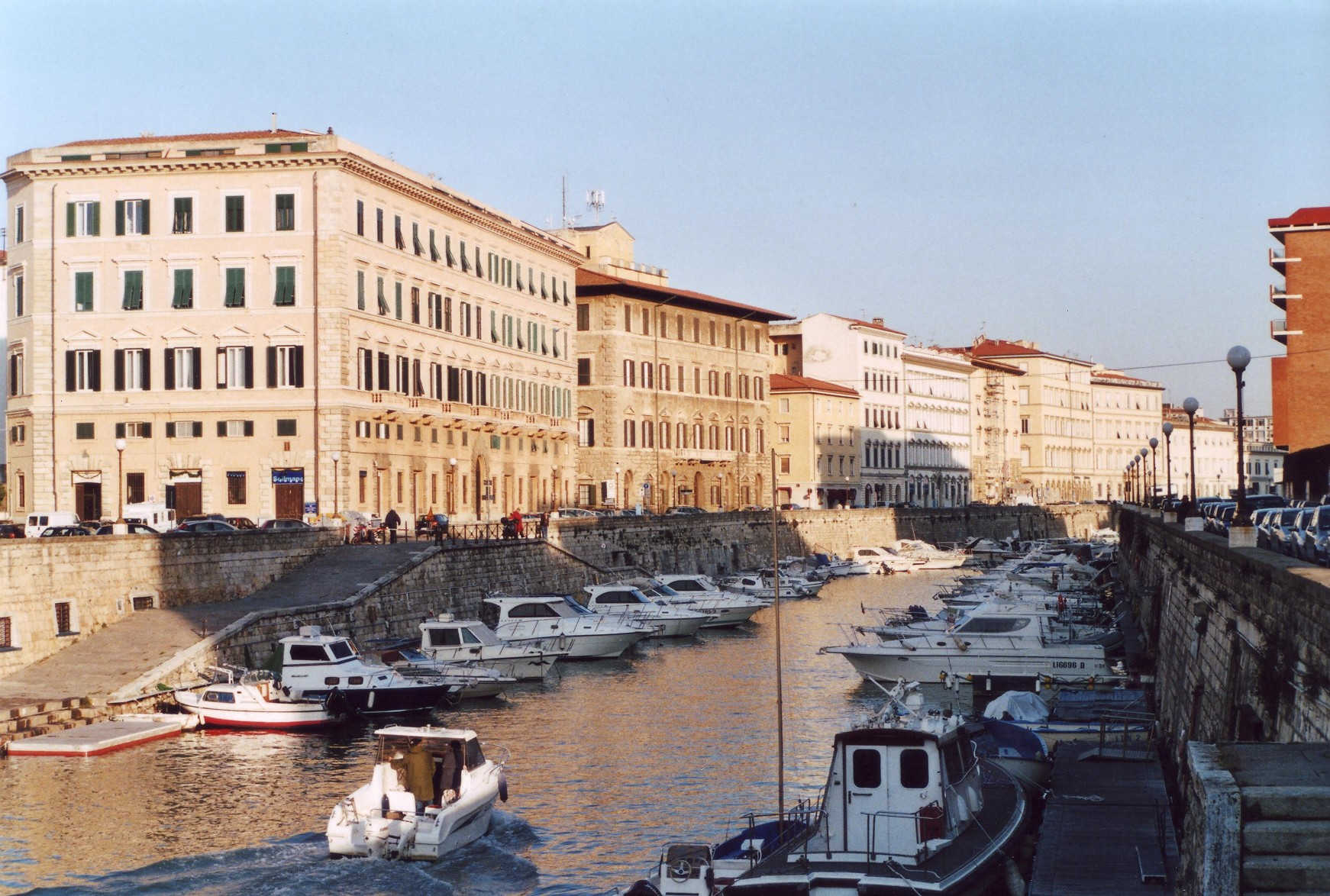 Livorno (LI), Italy Fosso Reale Photo January 2006